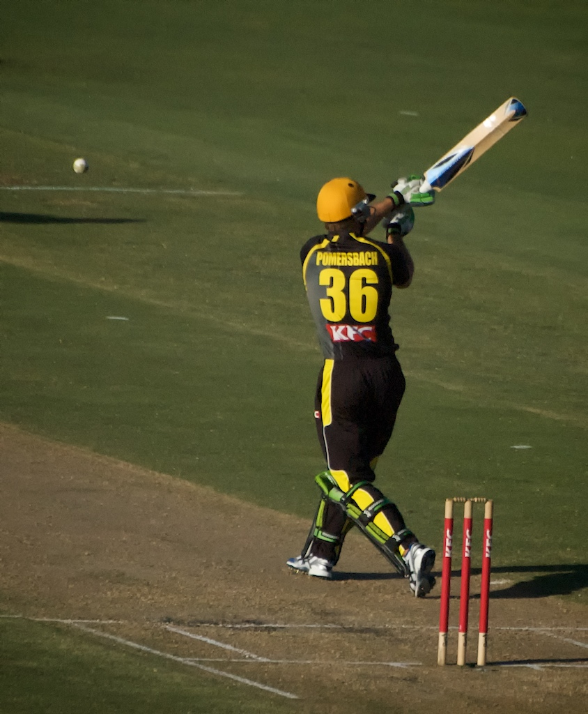 Luke Pomersbach at KFC Twenty20 BigBash - WA v VIC, 10 January 2010, WACA Ground